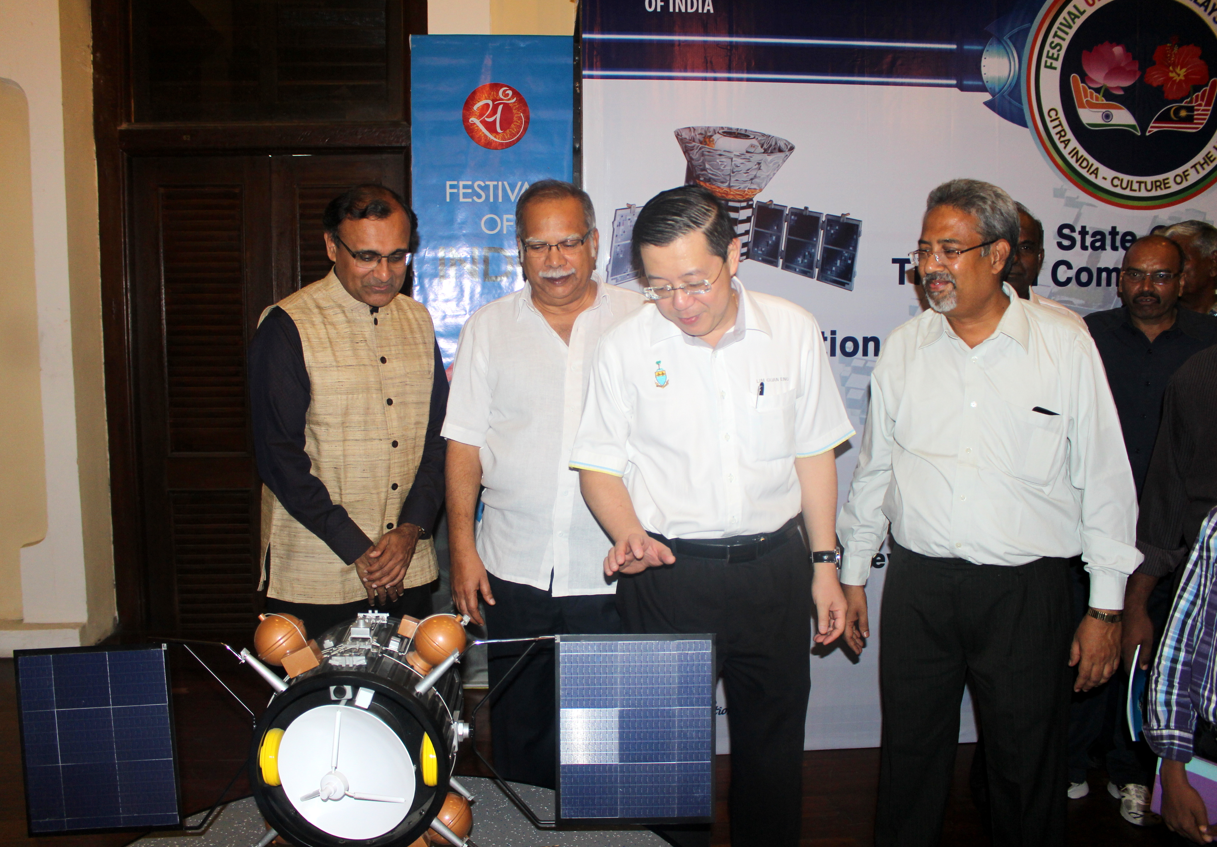 The Chief Minister of Penang Lim Guan Eng with his Deputy Ramasamy Palanisamy, the Indian High Commissioner to Malaysia Mr. Thirumurthi, IFS and Mr. Narayan Ramdas Iyer during the Inauguration of the Exhibition "The Rise of Digital India". The exhibition which was inaugurated on the 19th of April 2015 in the Old Town Hall of Georgetown, Penang was about the story of the rise of Information Technology in India in the second half of the 20th Century. The exhibition was curated by Narayan Ramdas Iyer.